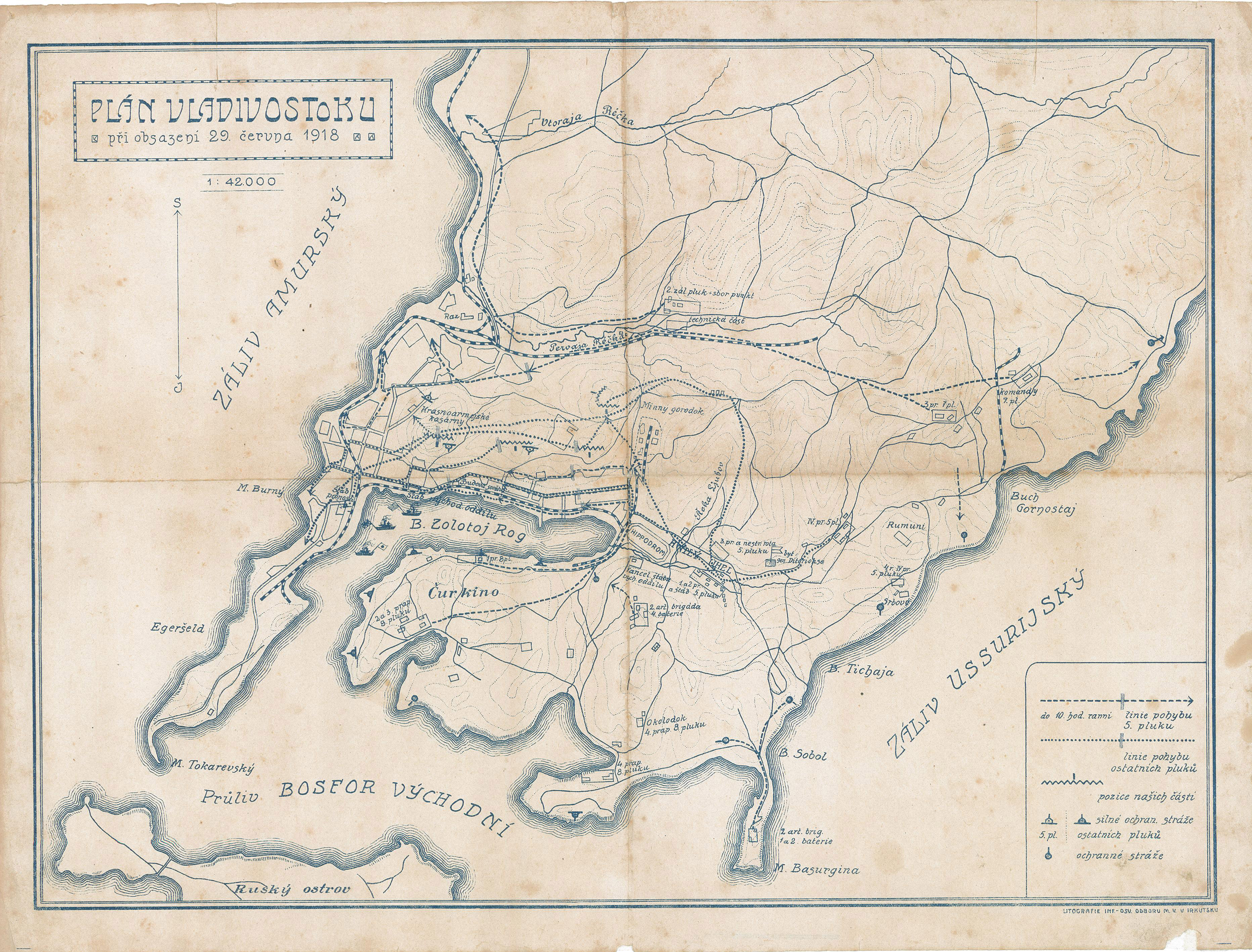 Map of Vladivostok when seized by the Czechoslovak Legions on 29 June 1918. The descriptions are in Czech.